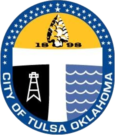 Tulsa, Oklahoma city seal, adopted in 1973 and modified in 2008.